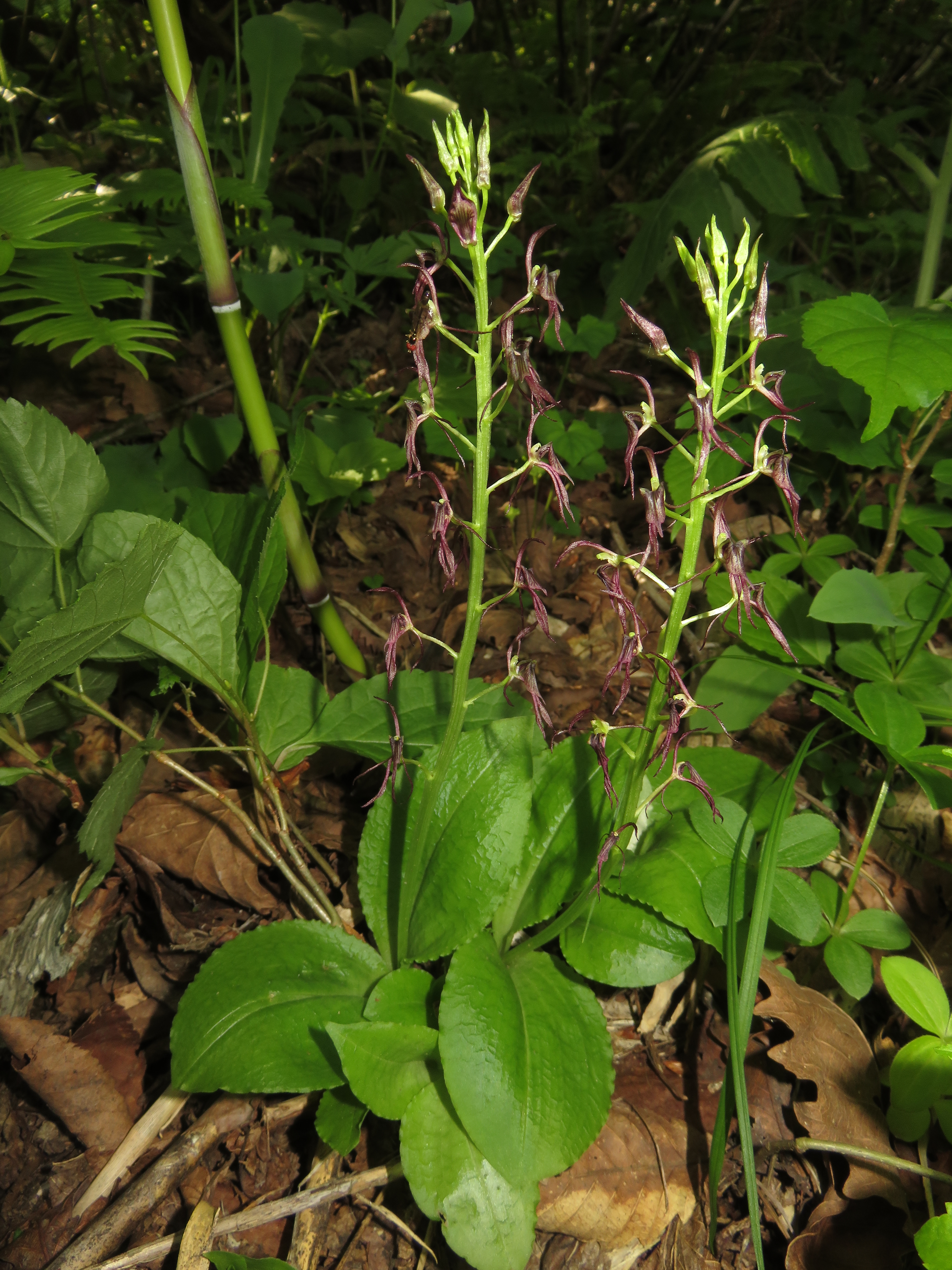 Liparis krameri, Aizu area, Fukushima pref., Japan